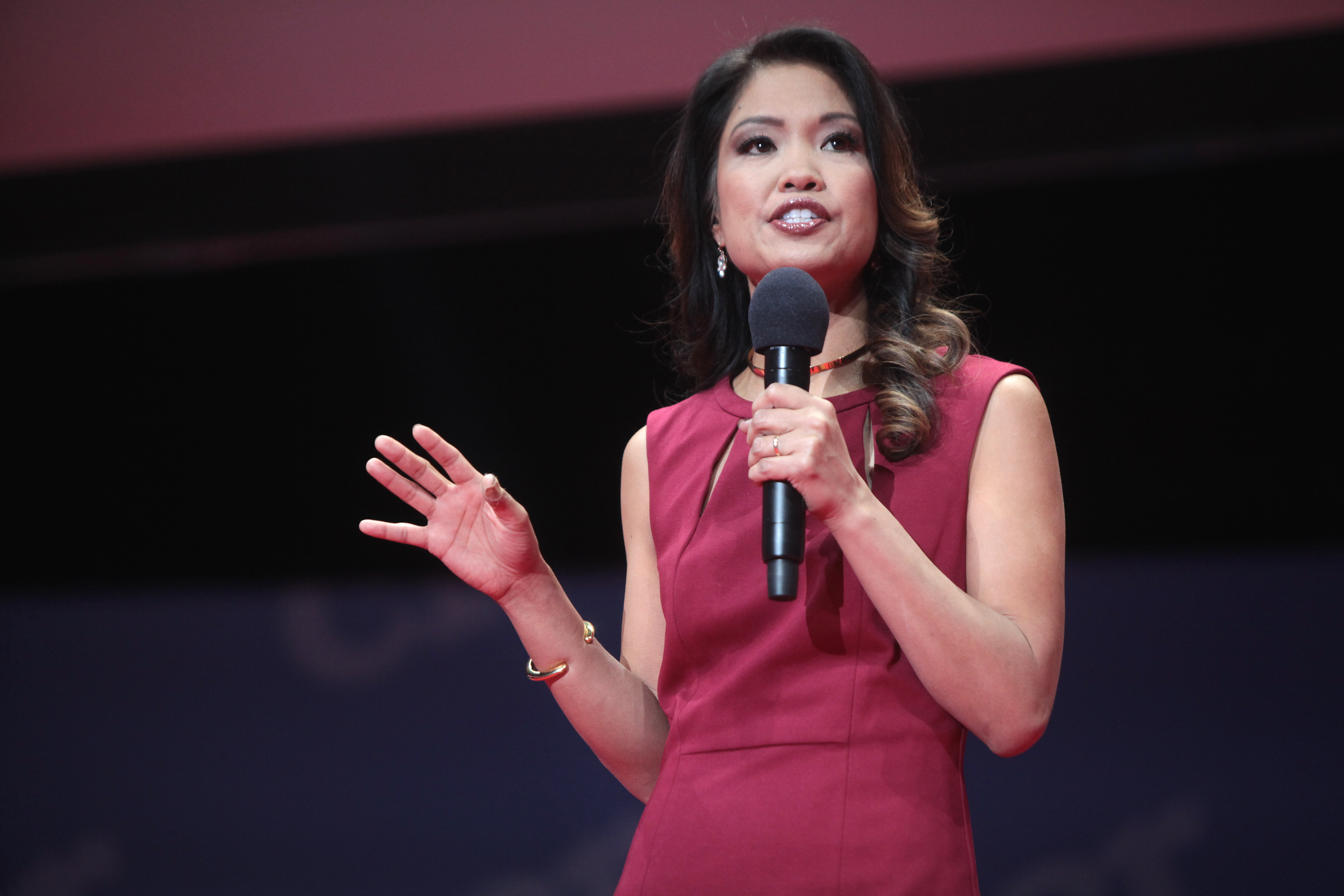 Michelle Malkin speaking at an event in Greenville, South Carolina.